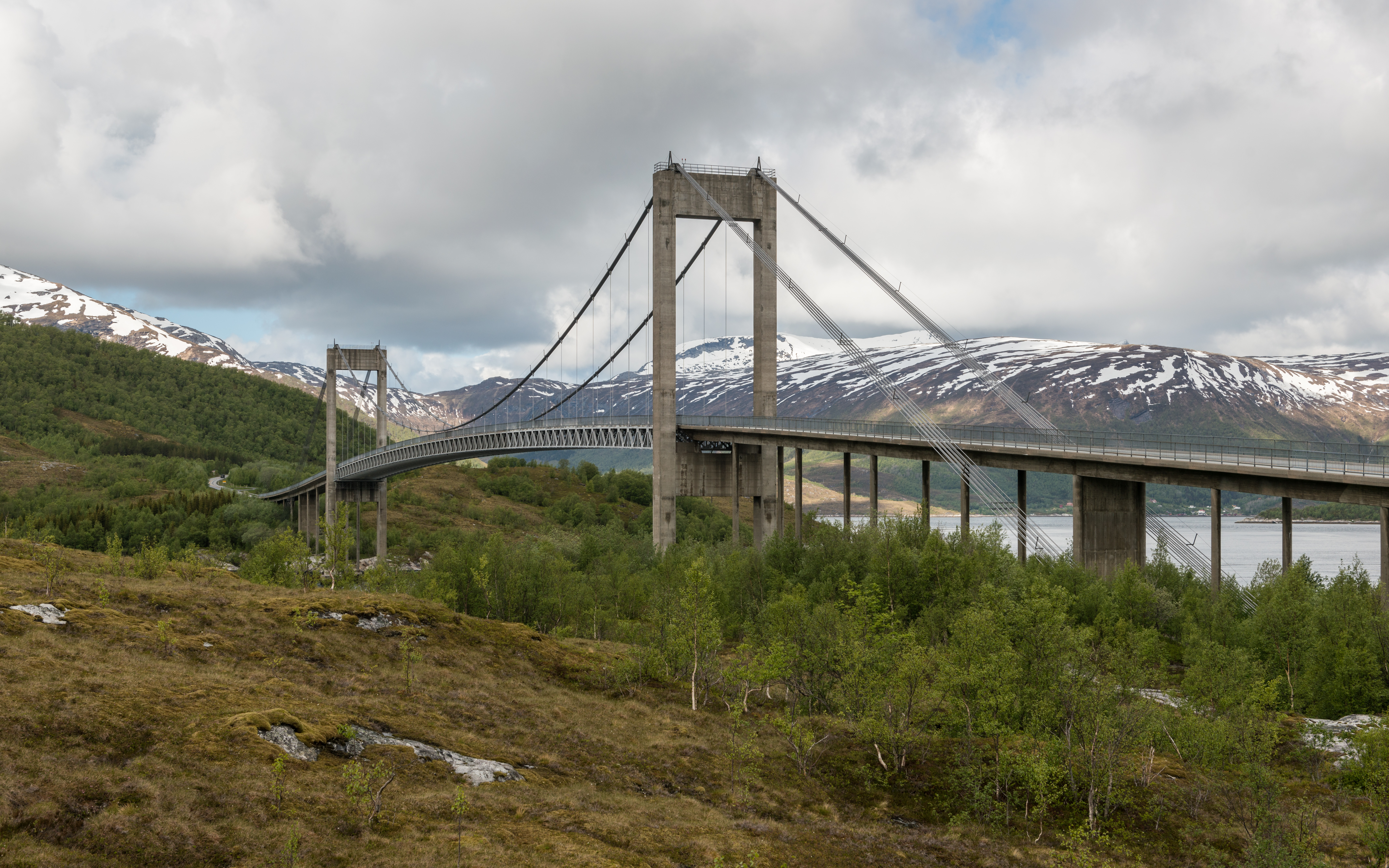 A west view of Kjellingstraumen bru